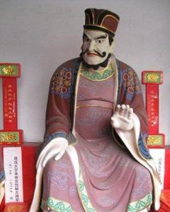 Statue of Dương Đình Nghệ (874–937) in Duong Xa, Thanh Hoa, Vietnam.